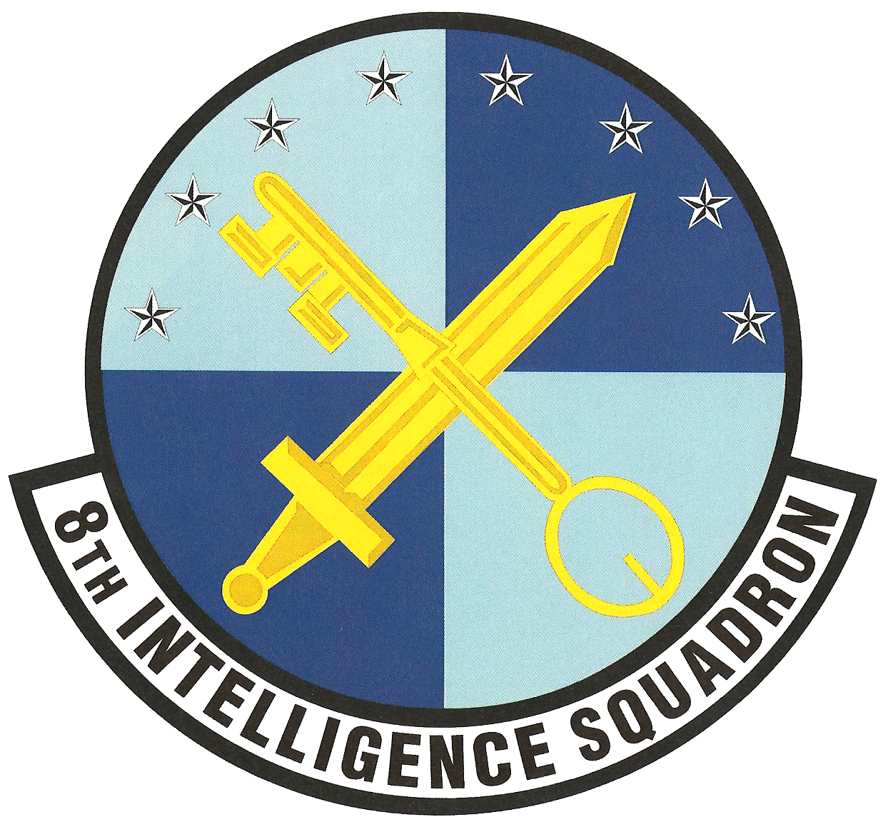 8th Intelligence Squadron emblem